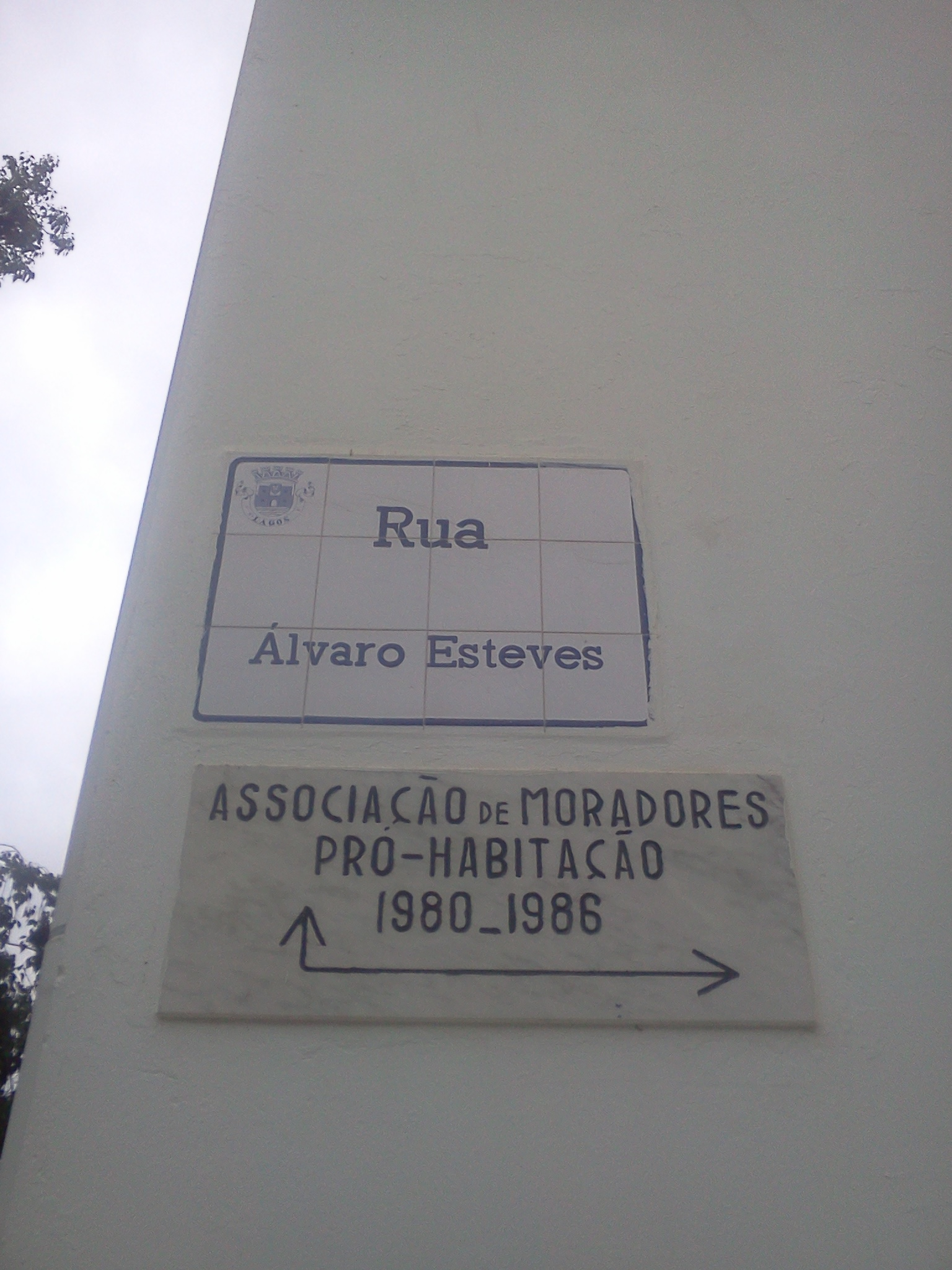 Street sign of Rua Álvaro Esteves, in the city of Lagos, in southern Portugal.